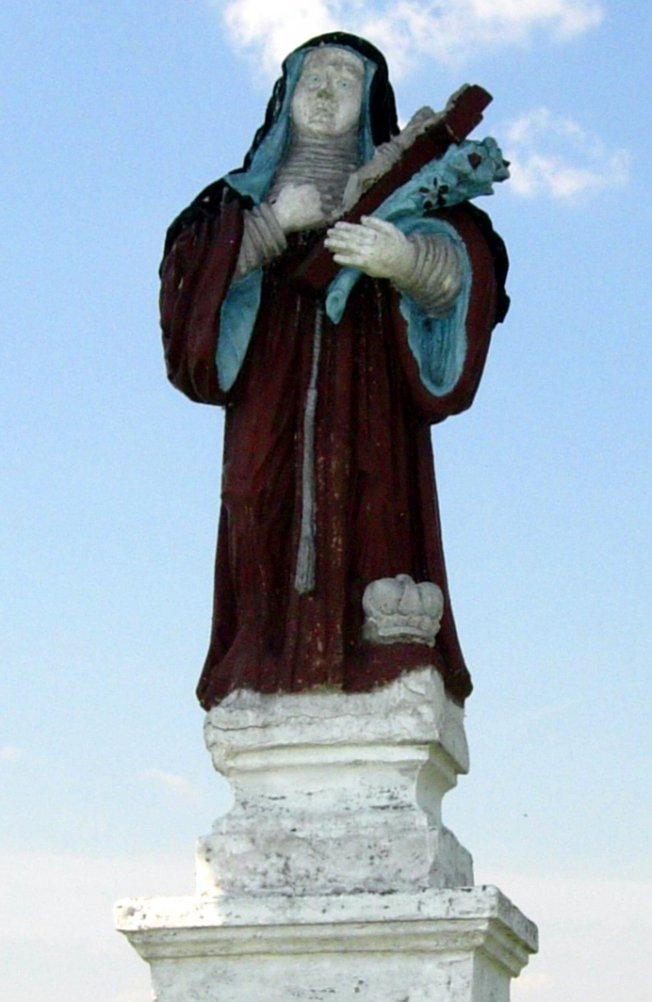 Statue of St. Kinga (1820) in Nowy Korczyn (Poland)